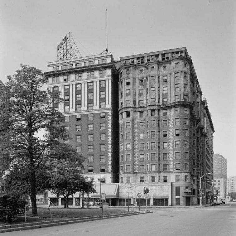 Hotel Tuller — Detroit, Michigan. Formerly in the Grand Circus Park Historic District, demolished in 1992 Historic American Buildings Survey—HABS image (c. 1992).